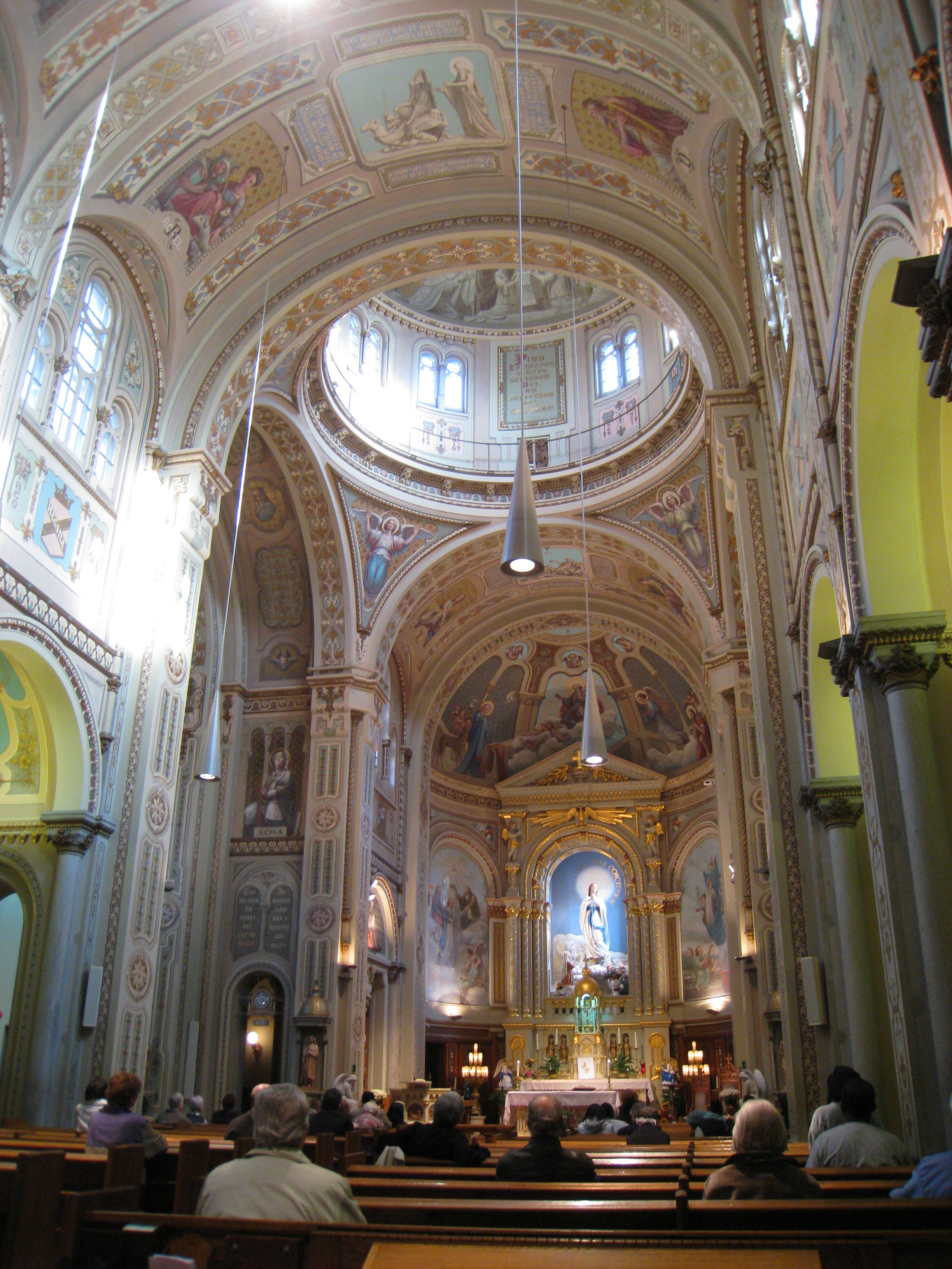 Interior view of Chapelle Notre-Dame-de-Lourdes, 430 rue Ste-Catherine Est, Quartier Latin, Montreal, PQ, Canada. I took this photograph.